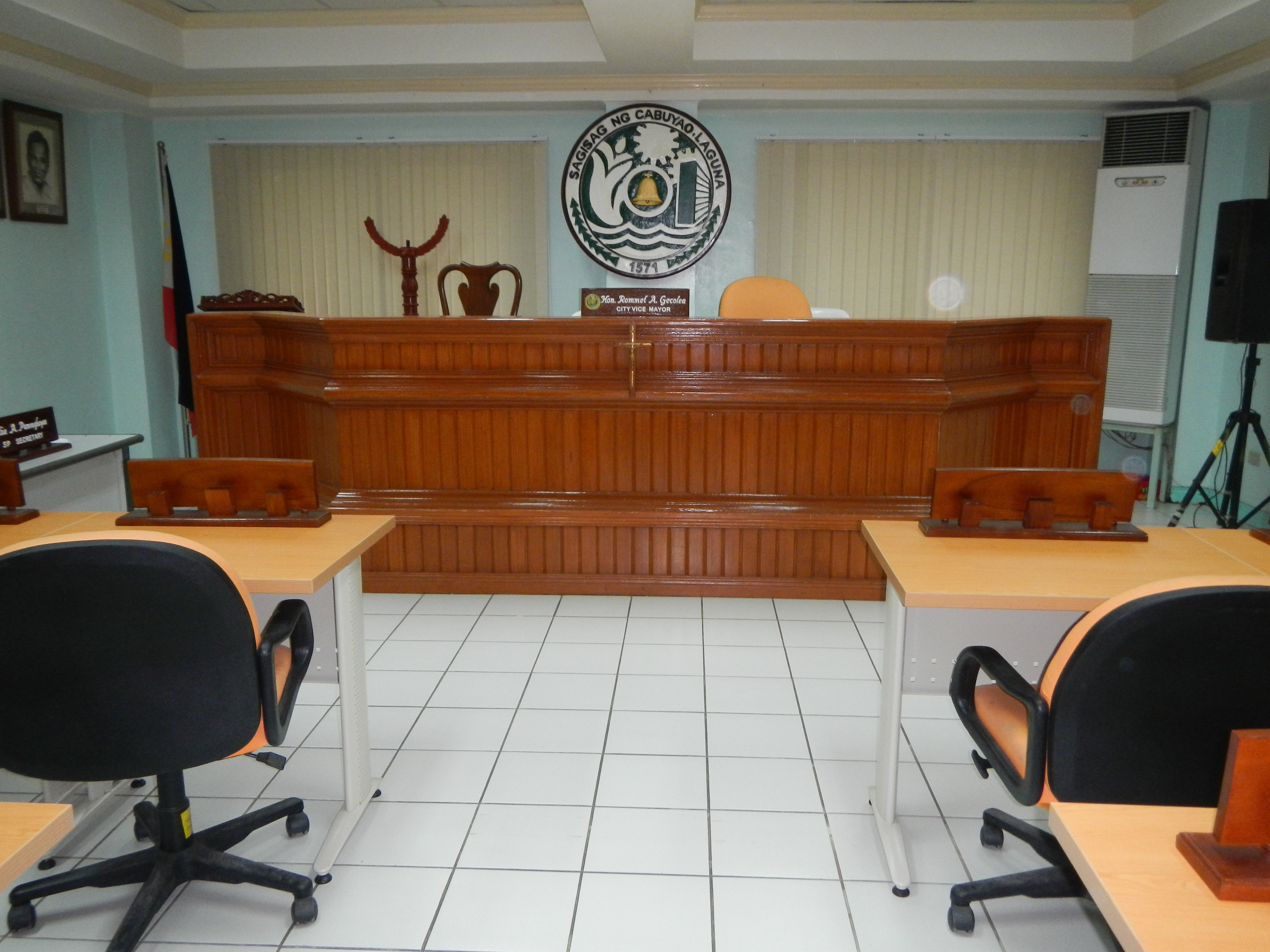 UploadWizard photos --- (general description) of (landmarks, heritage, culture, comprehensive, photography) of -- the -- Cabuyao City Hall[1] located in Brgy. Sala, Cabuyao [2] Cabuyao City, Laguna Coordinates:14°16'17"N 121°7'27"E homes the Cabuyao City Hall, Cabuyao City Police Station, Cabuyao City Jail and Cabuyao Fire Station. --- Cabuyao[3] (City of Cabuyao is a first class city in the western portion of Laguna, Philippines - 2010 Census, population of 248,436 inhabitants, area: 43.3 km²Website Cabuyao, Laguna, is newest city President Benigno Aquino, on May 16, 2012, signed the executive order directing the conversion of Cabuyao to a component city under Republic Act No. 10163 -[4] Coordinates: 14°15'0"N 121°6'20"E).